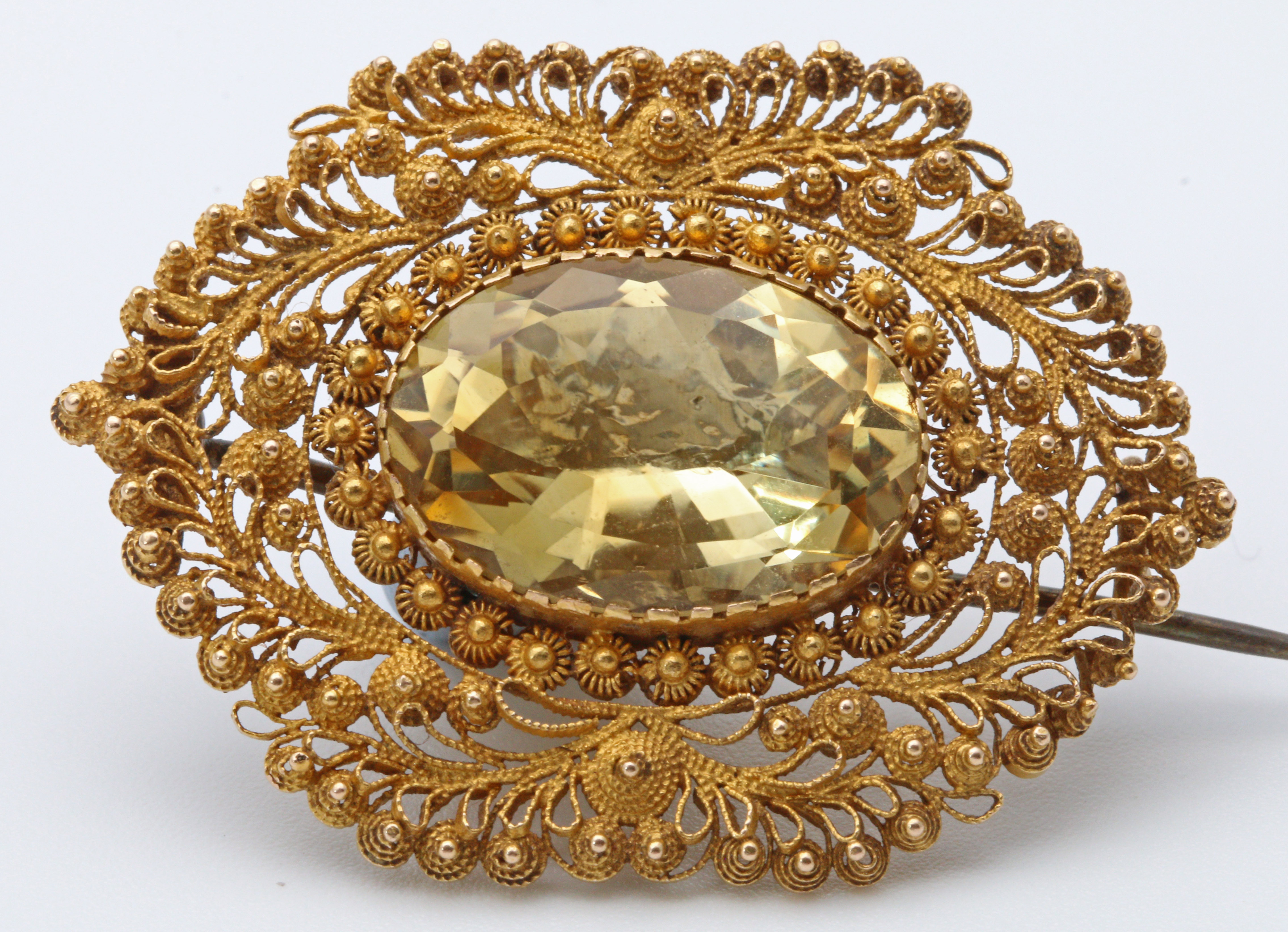 Early 19th century cannetille work brooch with an oval mixed-cut citrine in a foiled closed back setting, within a scroll and burr cannetille surround. c. 1835